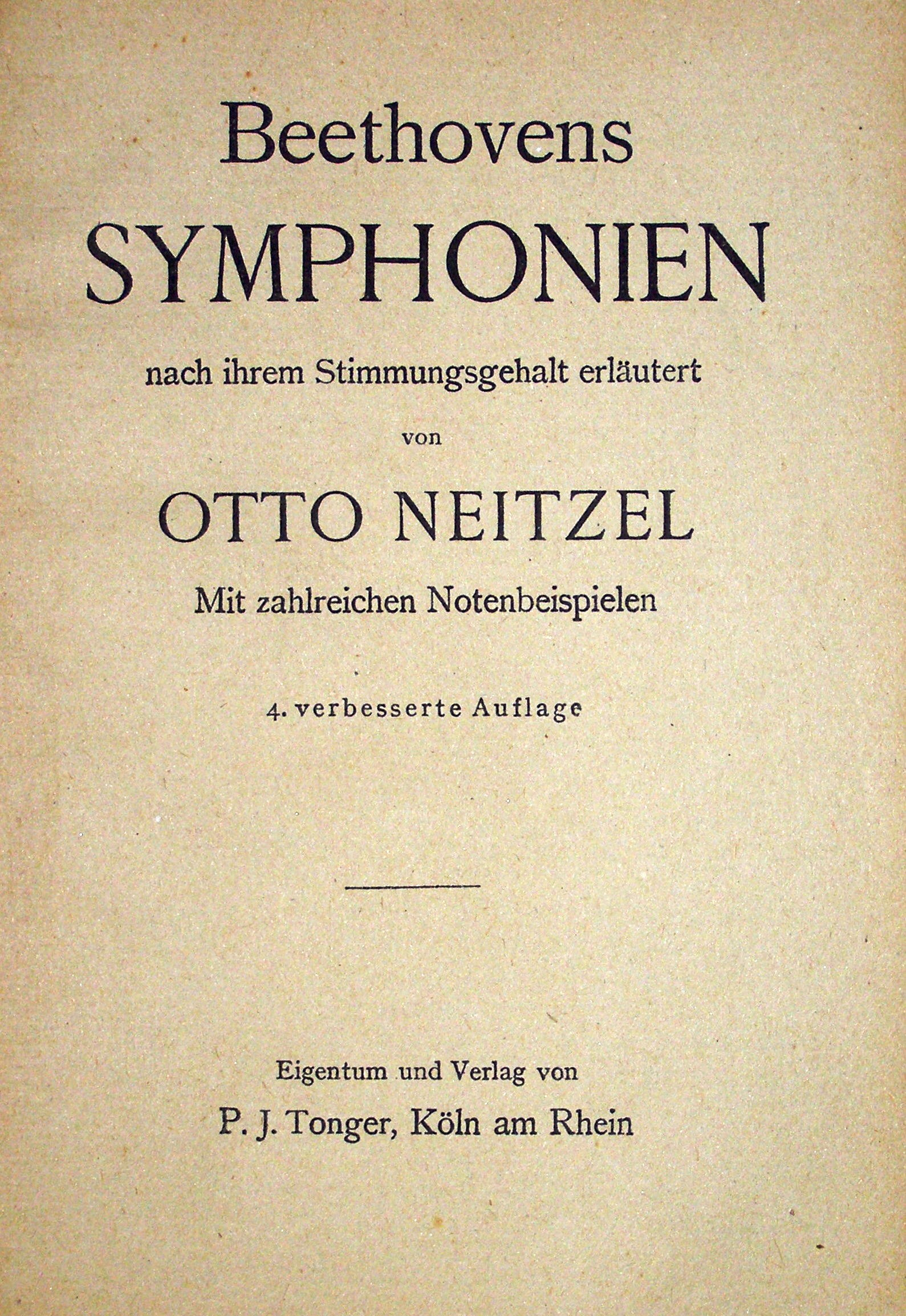 Title: Otto Neitzel, "Beethovens Symphonien", Tonger